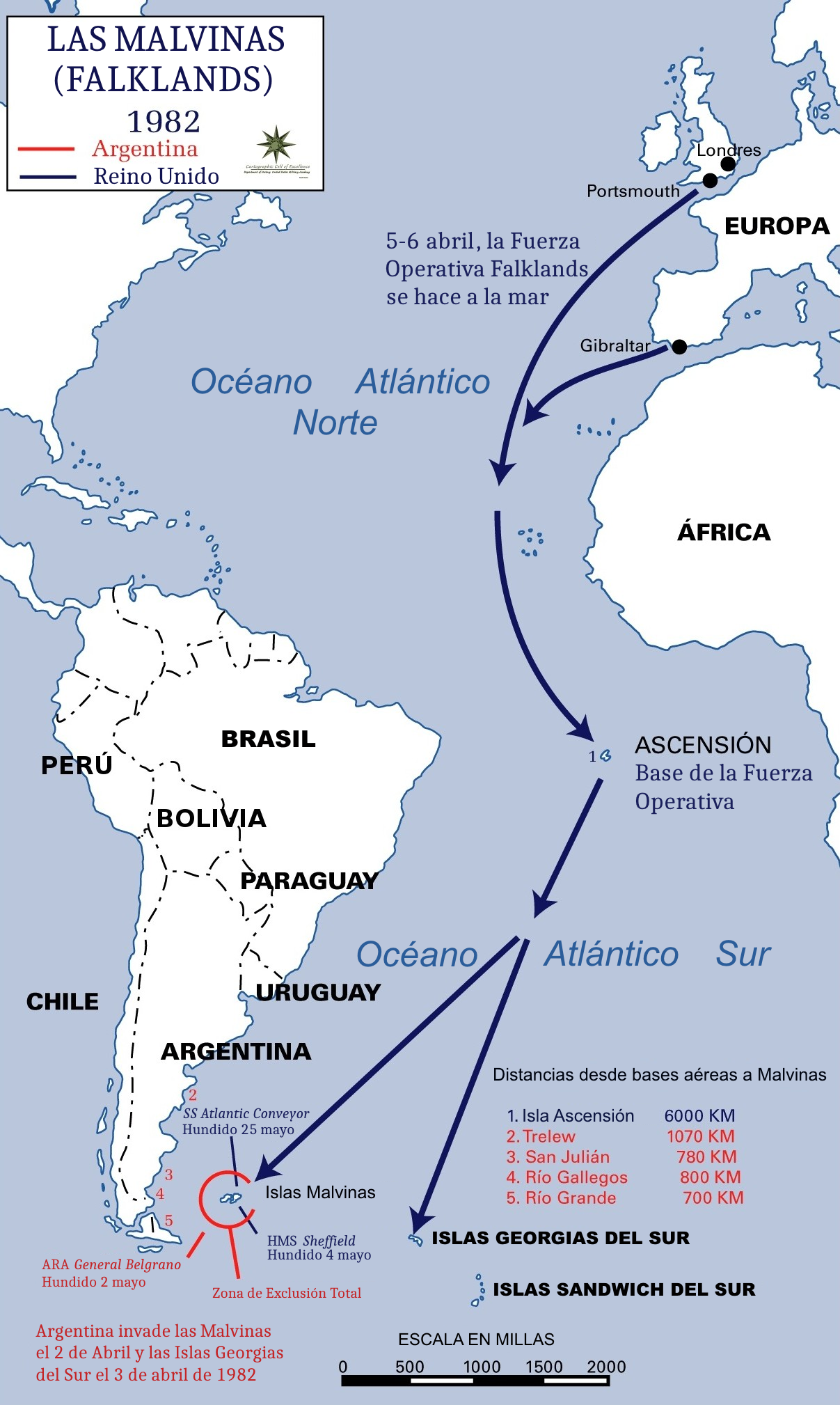 Map of the operational theatre of the Falklands War, and the distances between them and the bases from both armies. This map has been translated from English to Spanish.